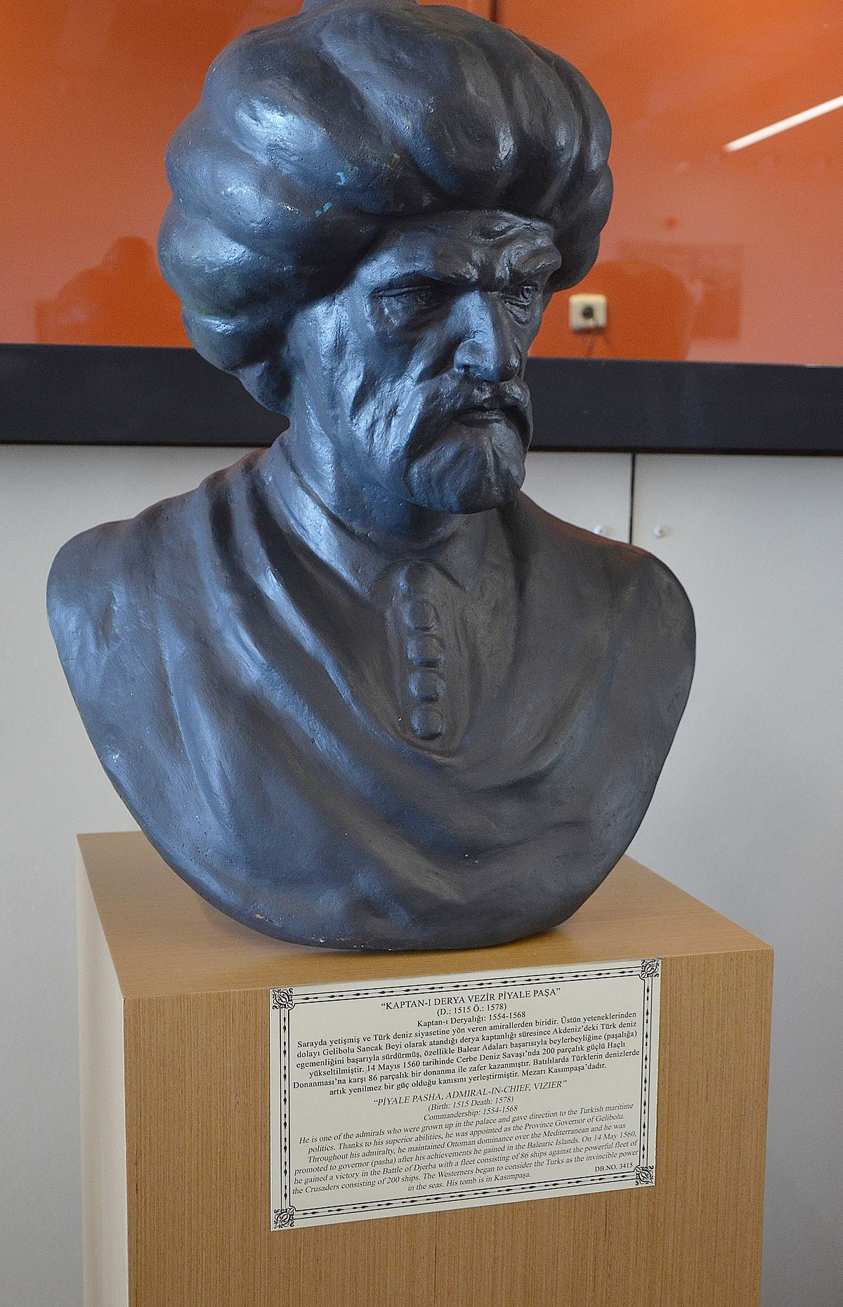 Piyale Pasha bust at Istanbul Naval Museum